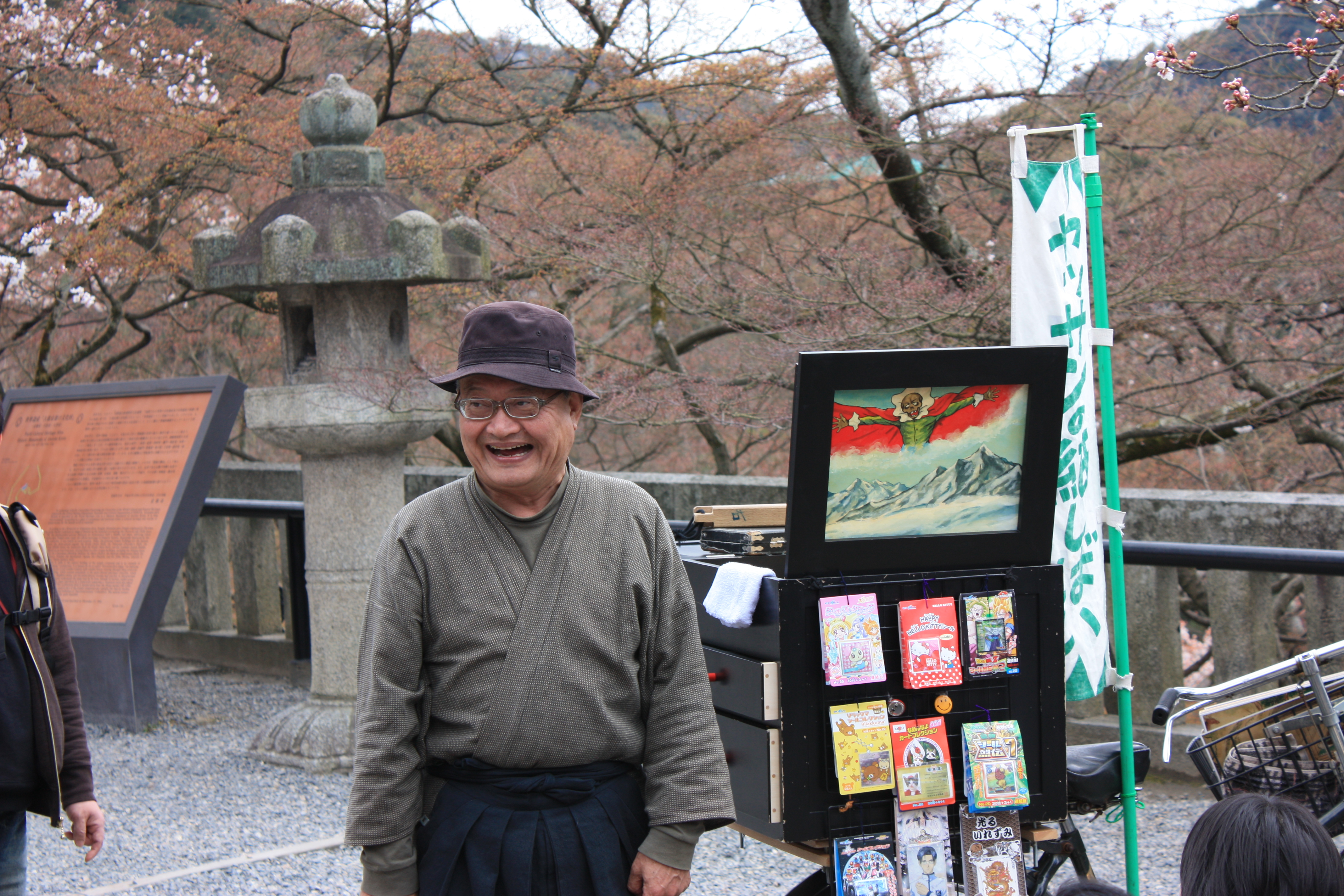 Kamishibai artist at Kiyomizu-dera, April 2, 2009. He is narrating a Ōgon Bat story.